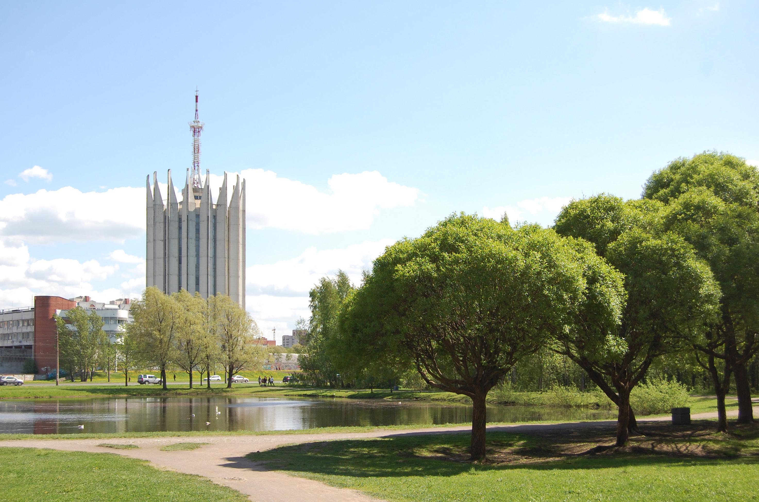 The view of Svetlaonvsky and Tikhoretsky Aves crossing from the park